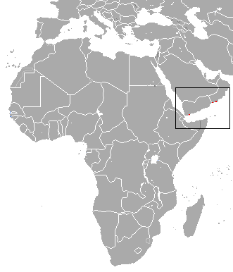 Arabian Shrew (Crocidura arabica) range